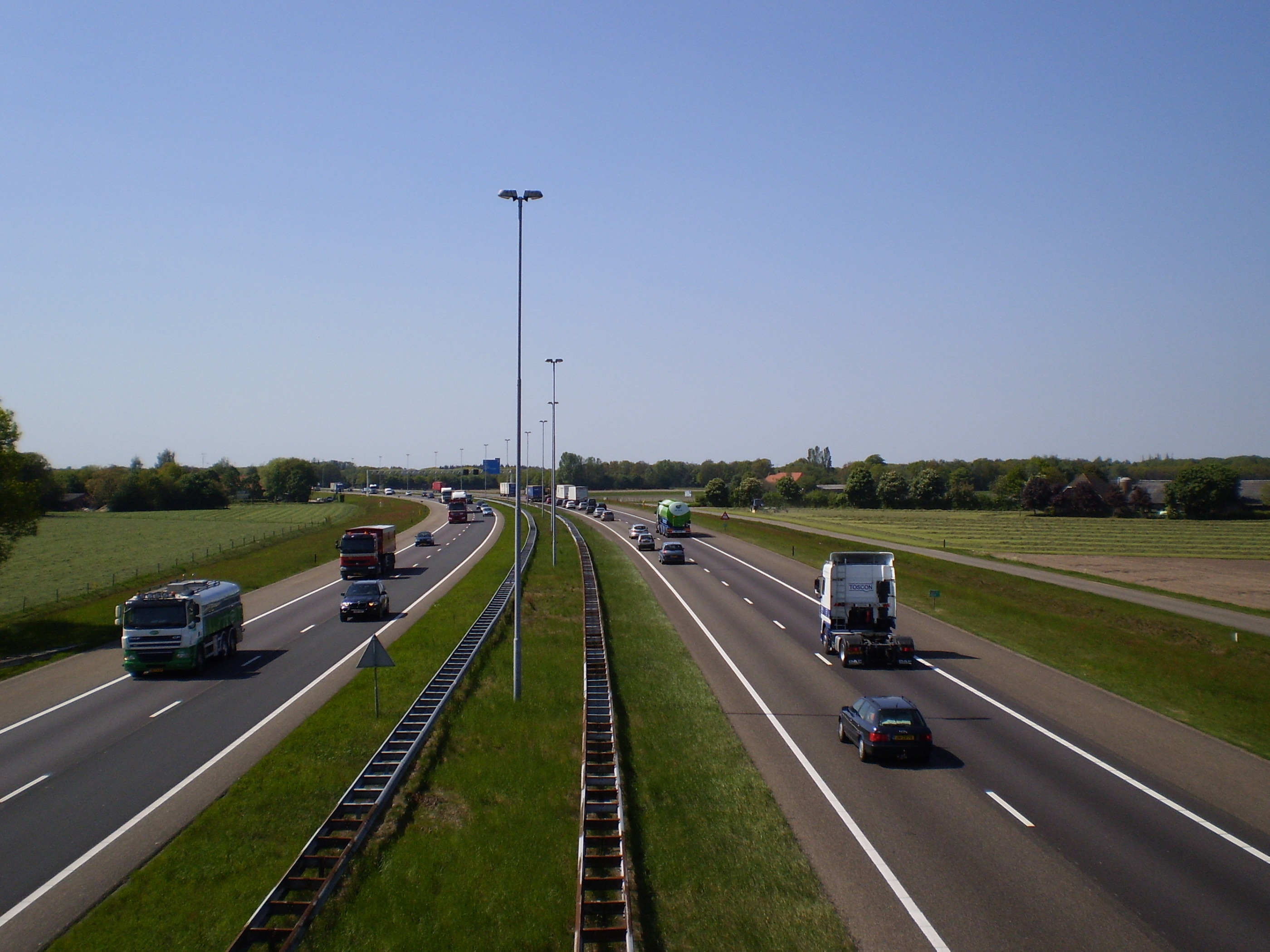 Motorway A58 near Gilze, NL